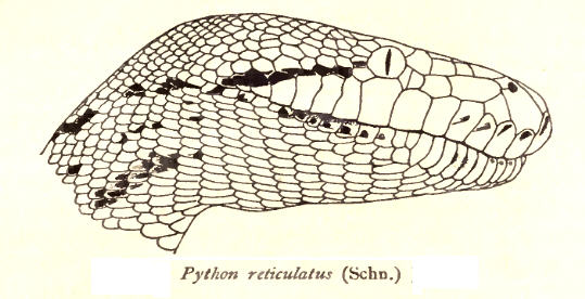 Python reticulatus